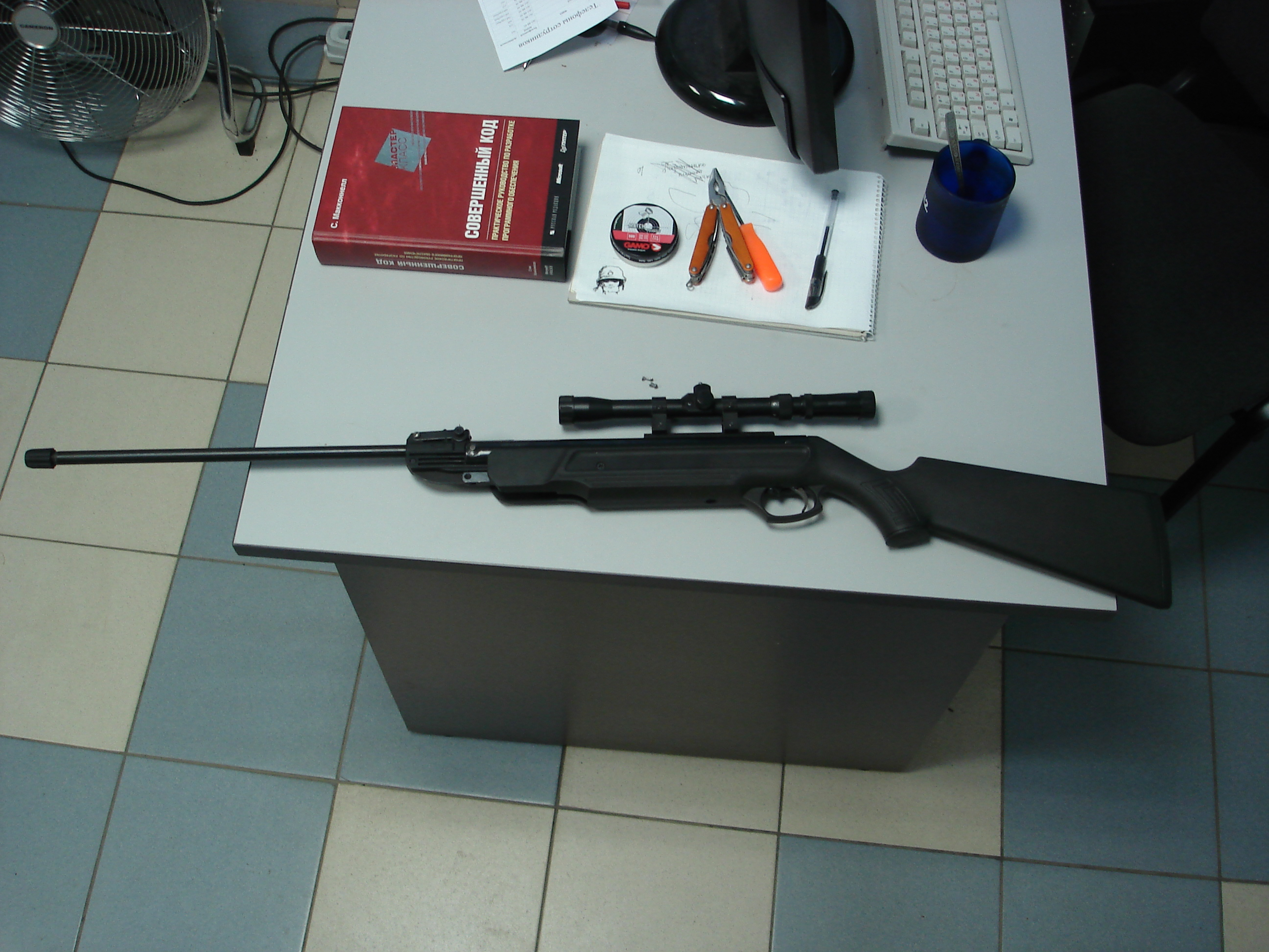 Scoped MR-512